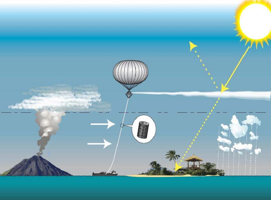 The SPICE project will investigate the feasibility of one so-called geoengineering technique: the idea of simulating natural processes that release small particles into the stratosphere, which then reflect a few percent of incoming solar radiation, with the effect of cooling the Earth with relative speed.